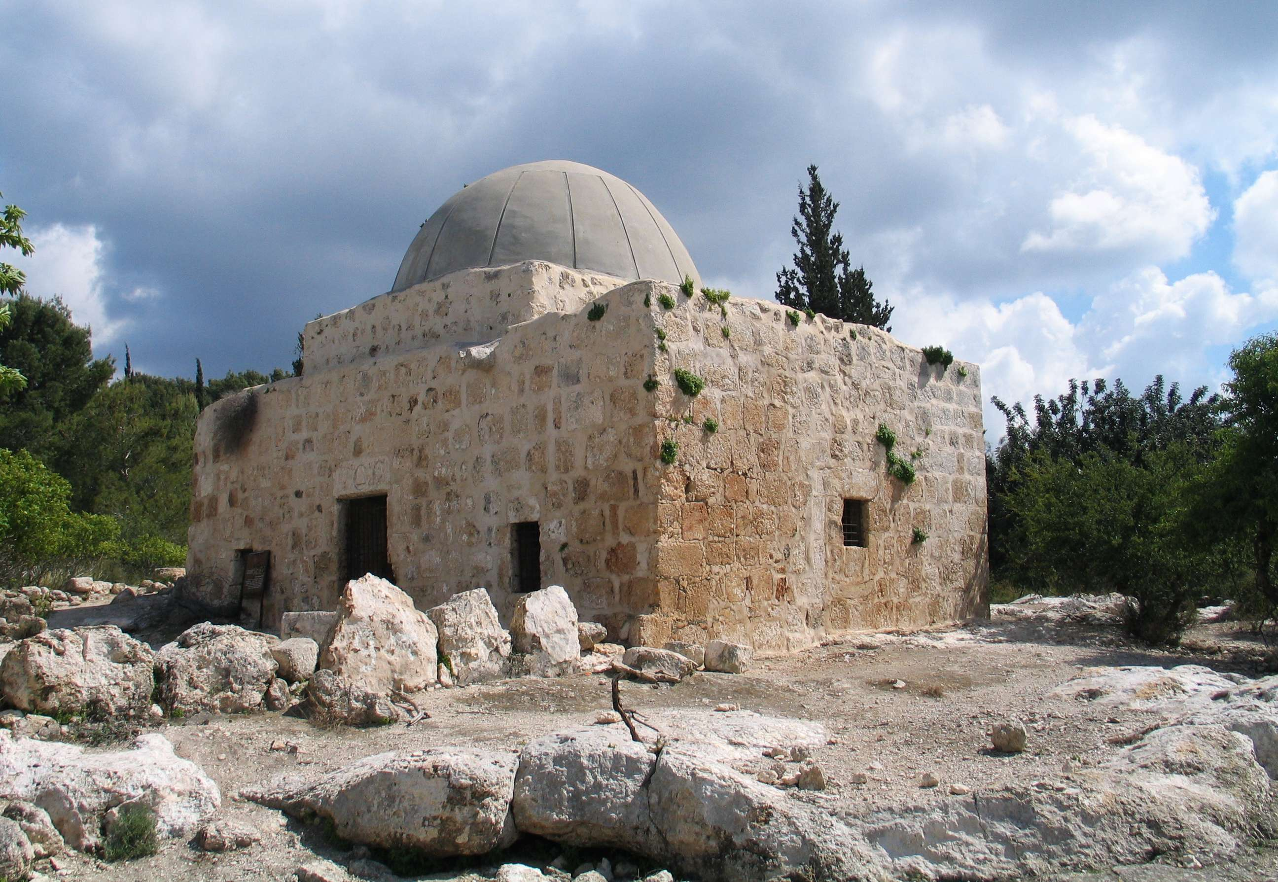 Ayalon Canada Park.